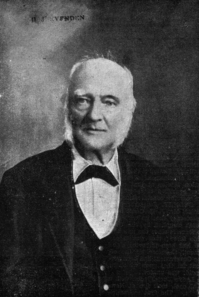 George J. Evenden. The late Mr. G. J. Evenden who has been Chairman of the Woothakata Shire Council for 20 years, the last 17 years being consecutive. The deceased gentleman was in his 79th year, and was one of the oldest and most respected residents in mining districts. His connection with local government was an unique one, his continuous record as Chariman of the local body at Thornborough constituting a record for Queensland. (Description supplied with photograph).